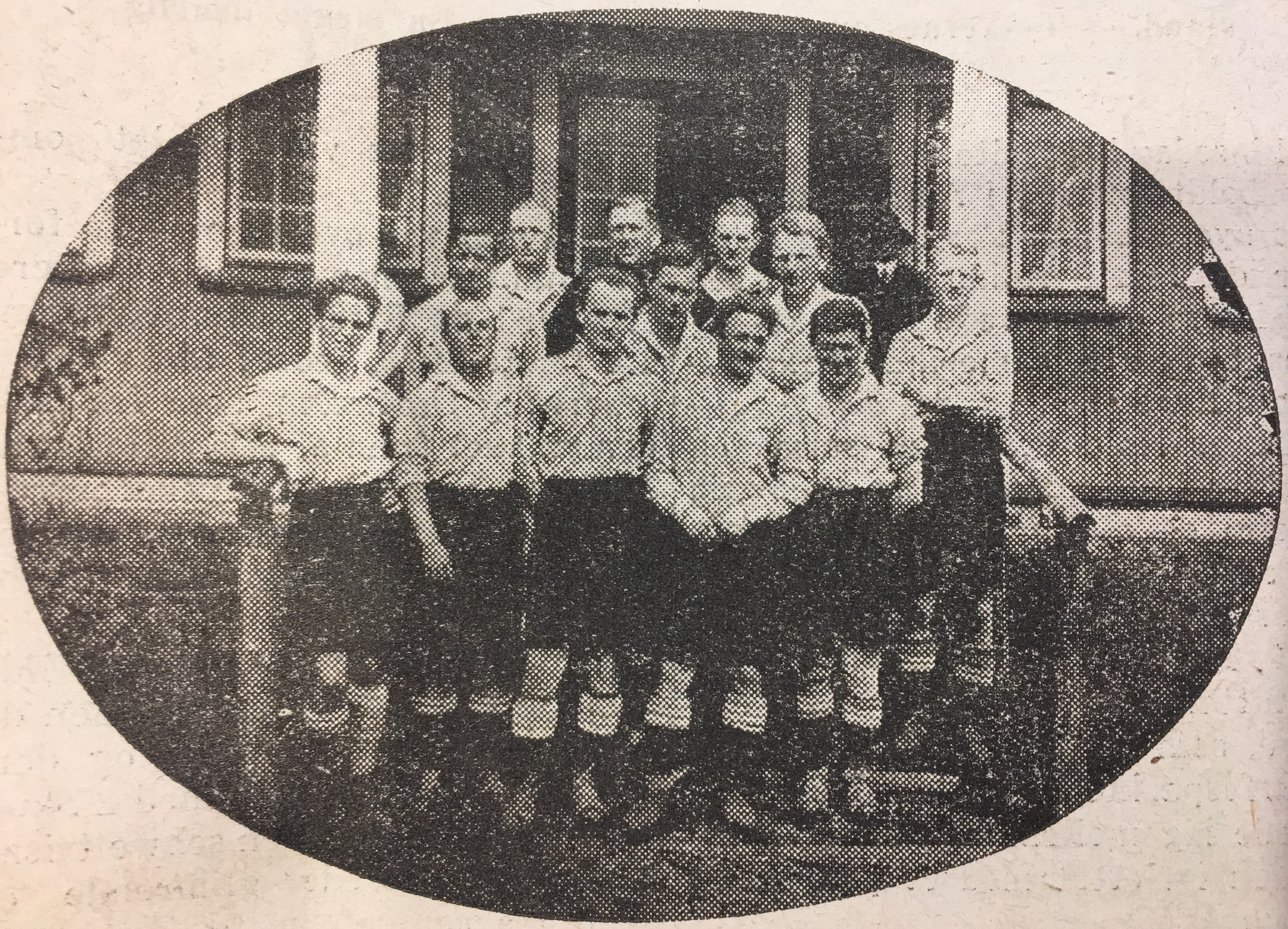 Team line-up of Skovshoved IF — Group photo of the first team players of the club in 1928.